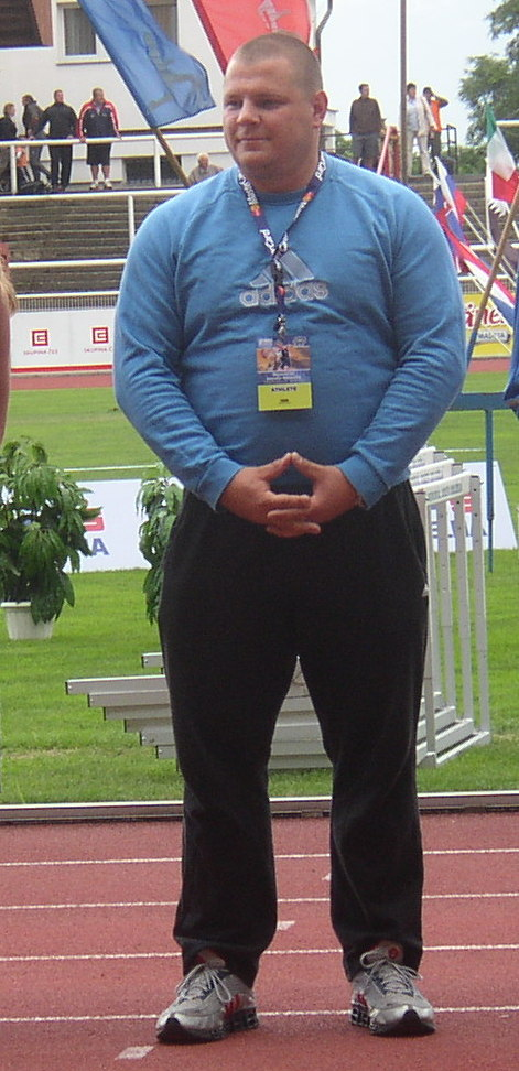 German shot-putter Ralf Bartels being introduced to spectators at Josef Odložil Memorial in Prague, June 16, 2008 (later 4th place for 19.22 m).